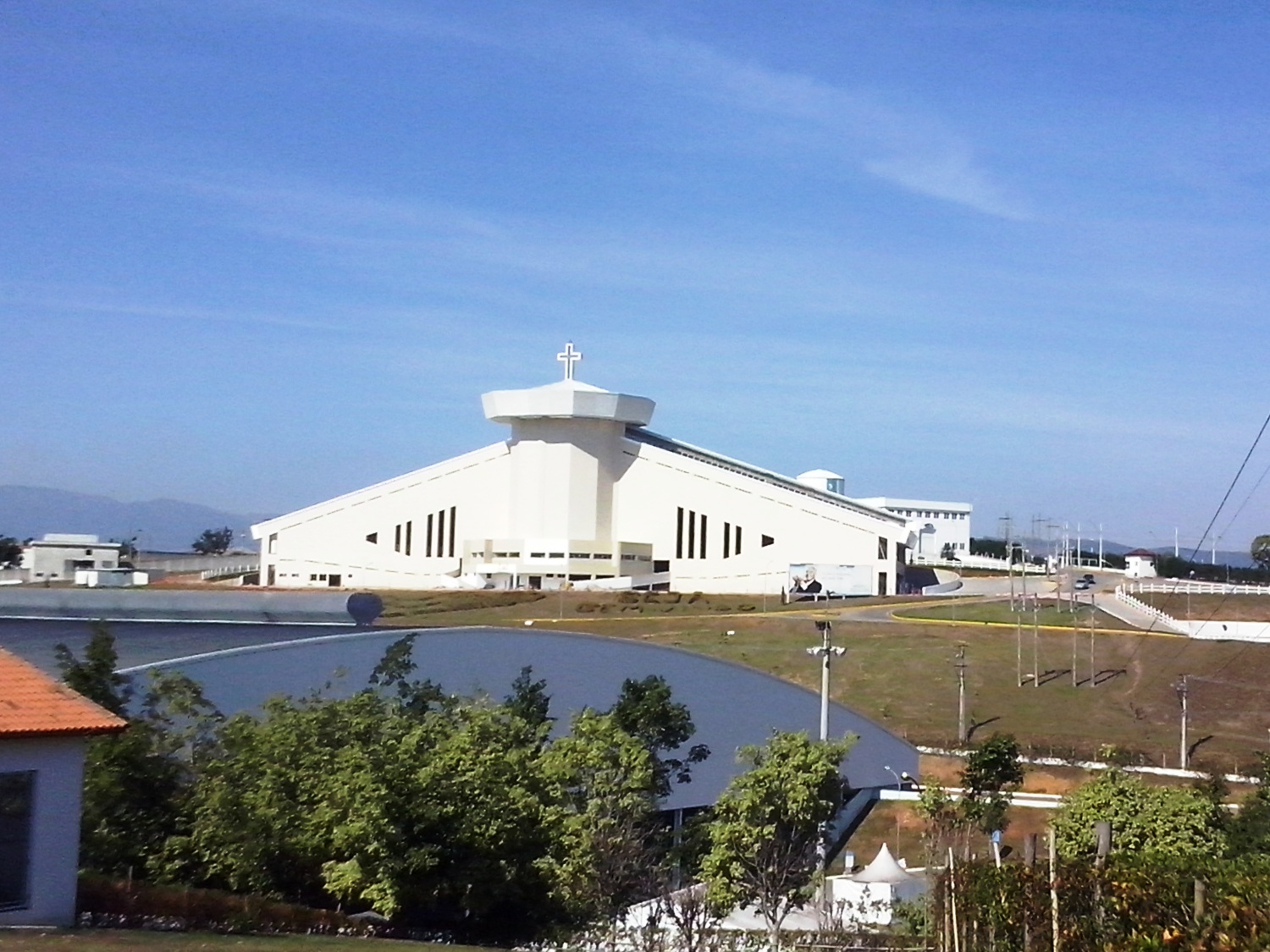 View of the Father of Mercies Shrine, in the interior of the Canção Nova community, in Cachoeira Paulista, São Paulo, Brazil.